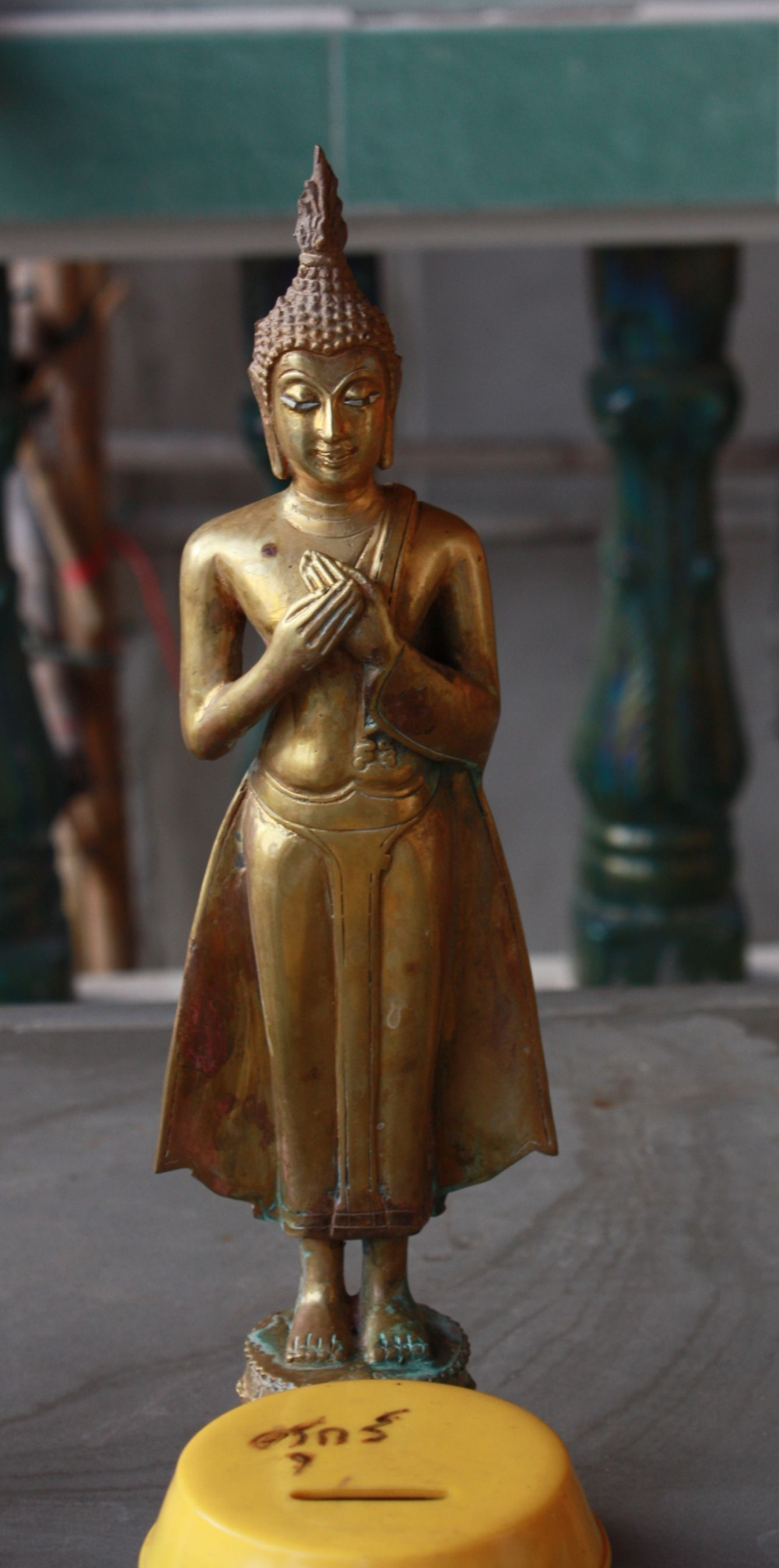 Budha in Wat Longdonchai ,ChiangMai ,Thailand